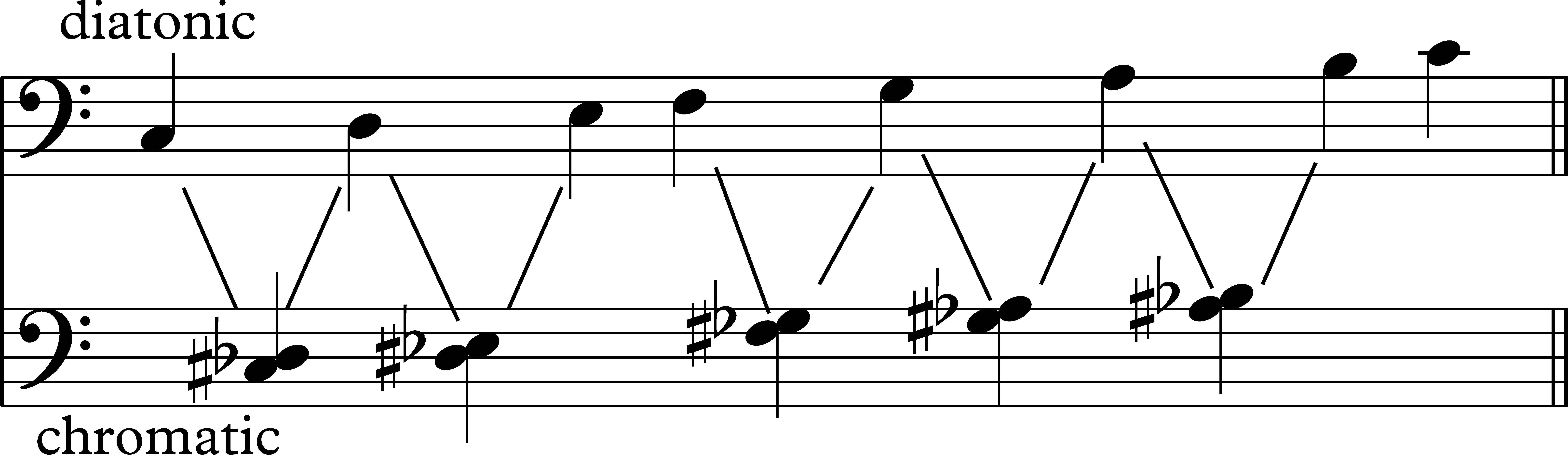 Diatonic scale notes versus chromatic notes.